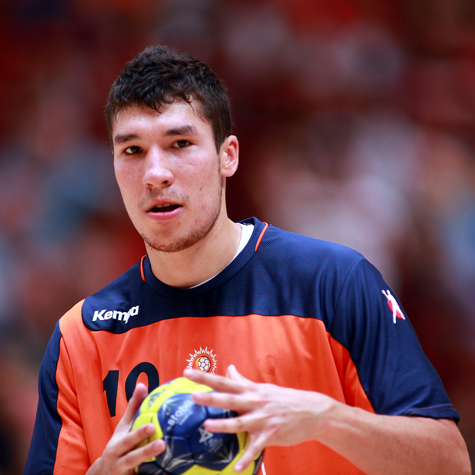 Alex Dujshebaev, Spanish handball player on August 20th, 2012 in Ehingen (Germany), during the EVFH-Cup (formerly known as Schlecker Cup).